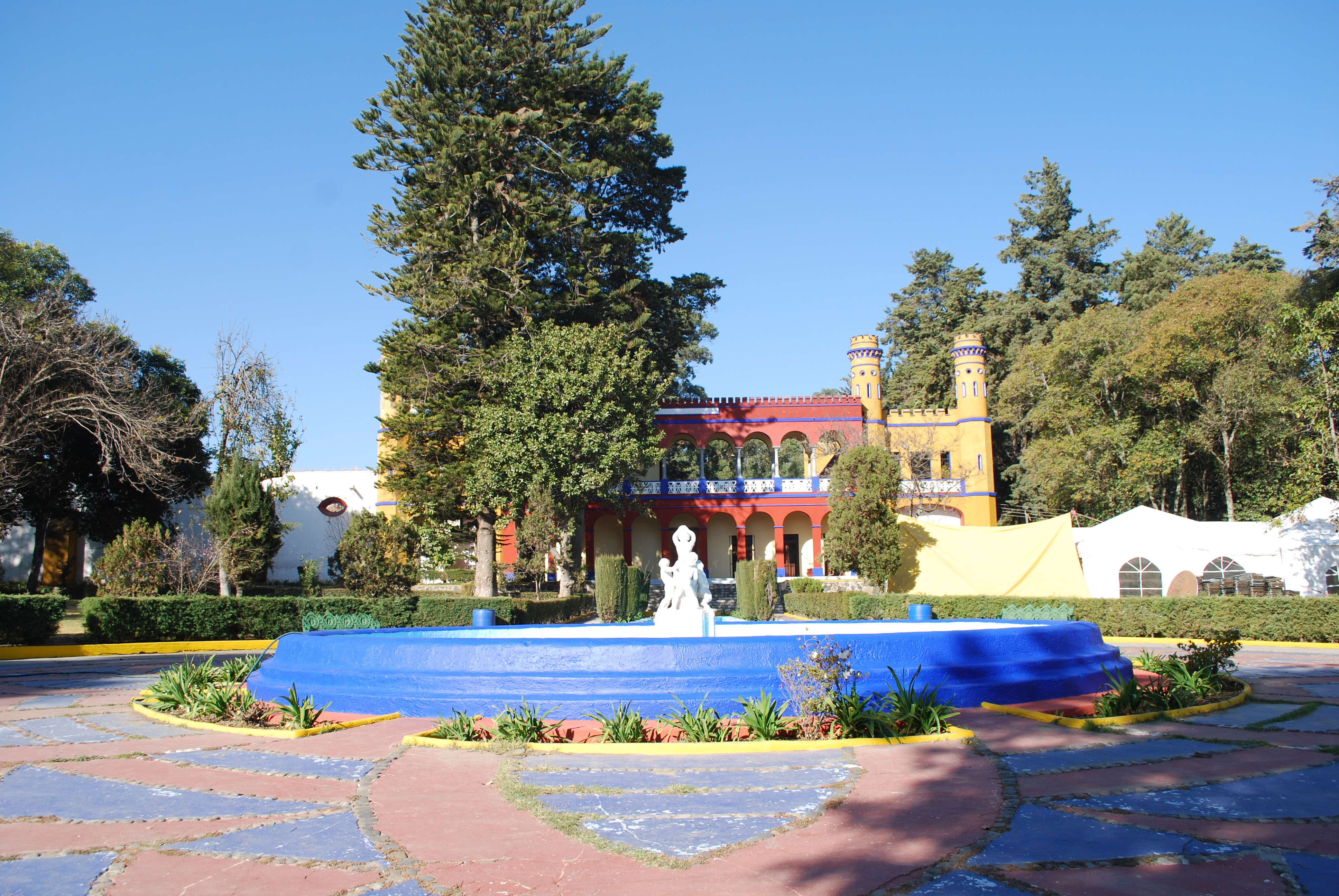 Facade of the main house of the Chautla Hacienda in San Salvador el Verde, Puebla, Mexico